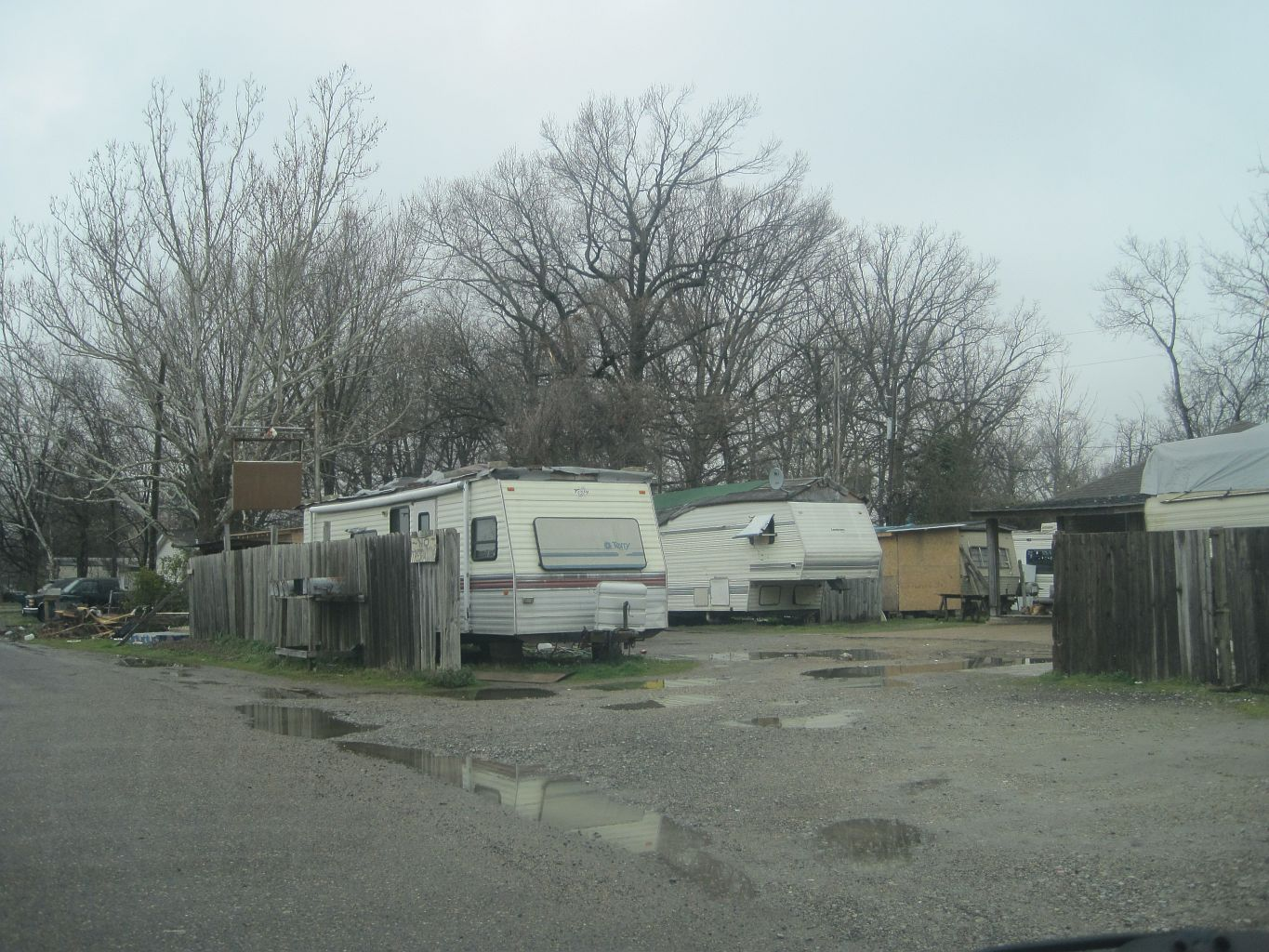 Lakeshore trailer park (West Memphis, Arkansas)